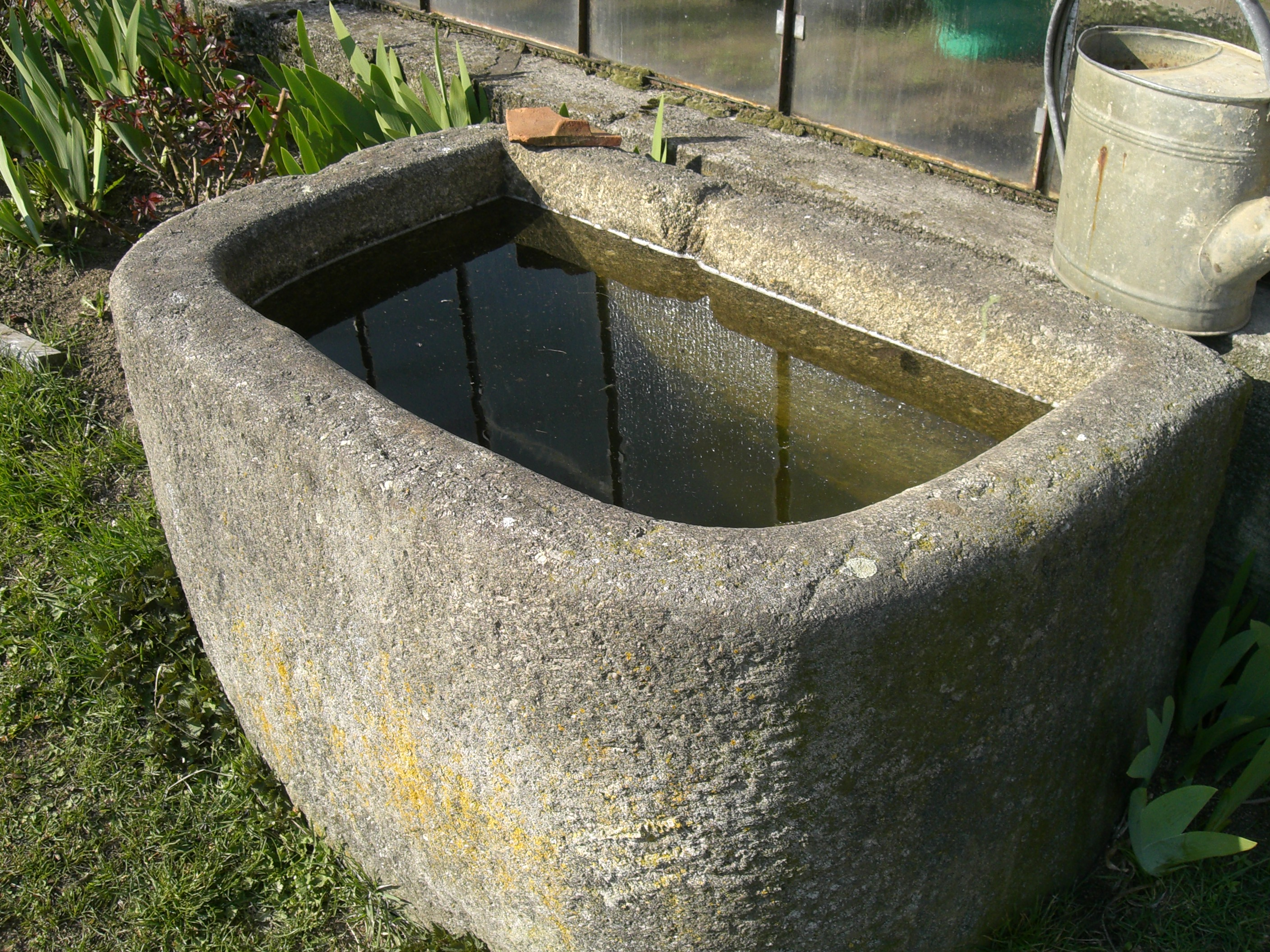 Container made from granite (so-called "stírka"), used as a water reservoir. Hrazany, Czech Republic.